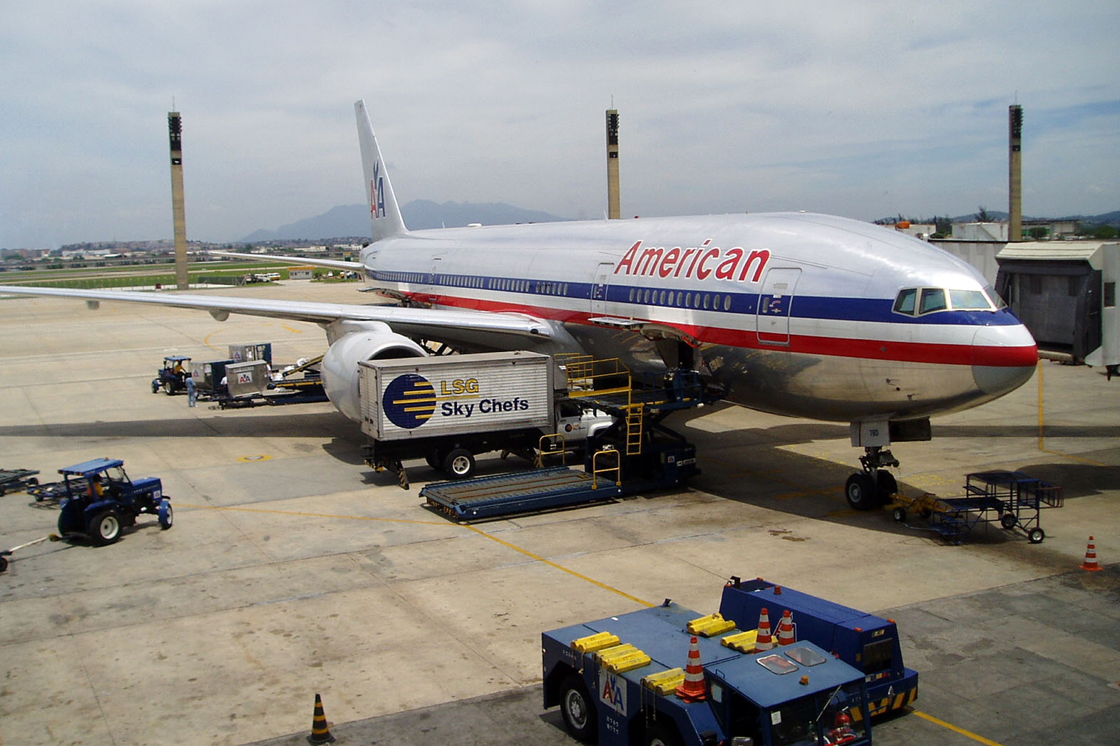 American Airlines Boeing 777 at Galeão - Antônio Carlos Jobim International Airport, Rio de Janeiro, Brazil